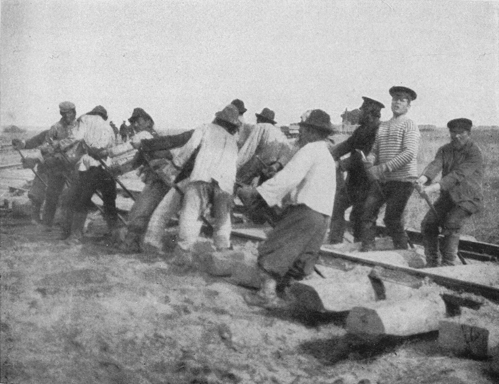 Korean and Russian labourers at work